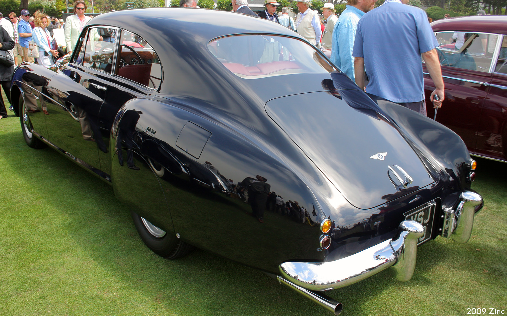 Pebble Beach Concours d'Elegance, Aug 16, 2009